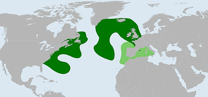 Teuthowenia megalops distribution map. Dark green: Confirmed distribution Light green: Possible distribution